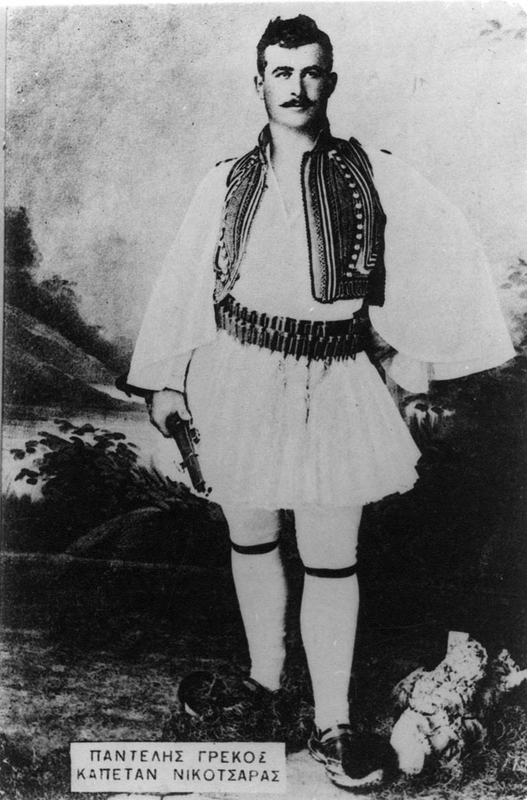 Pandelis Papayoanou